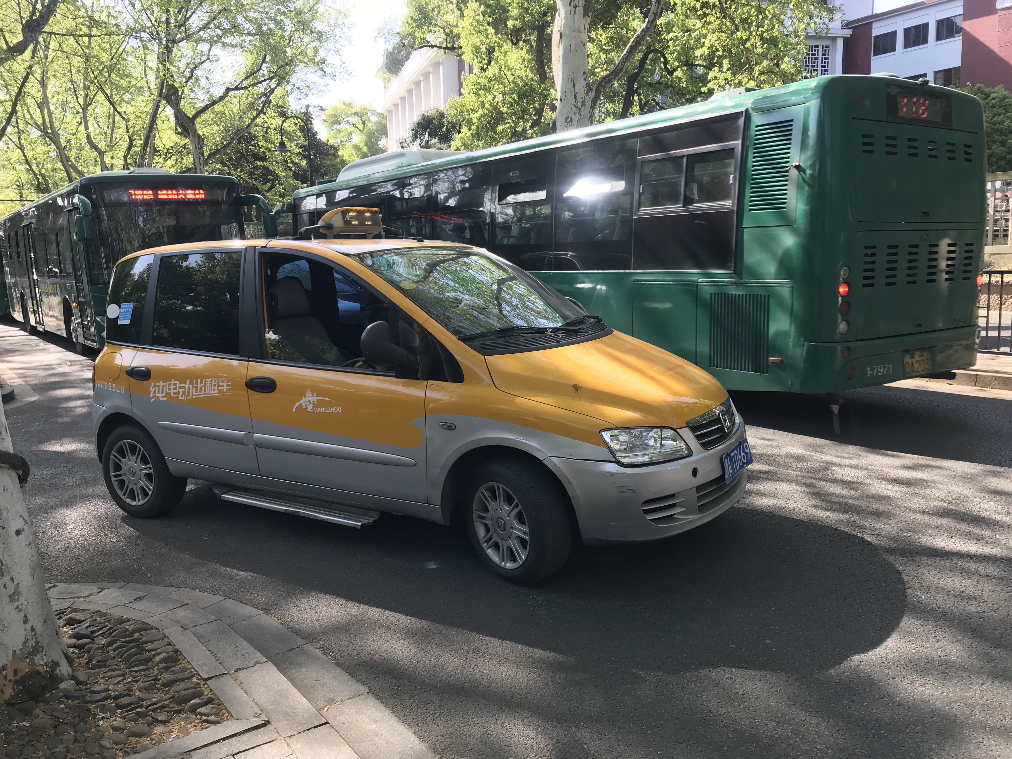 Zotye M300